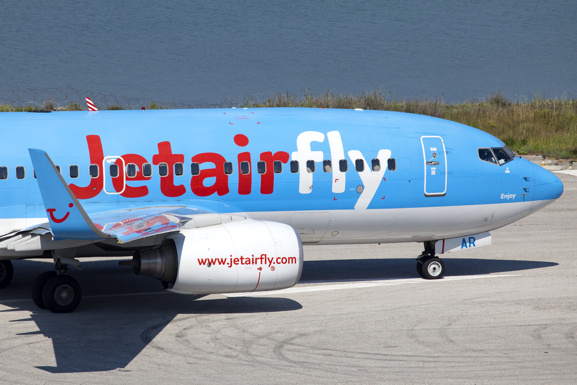 Corfu-Greece